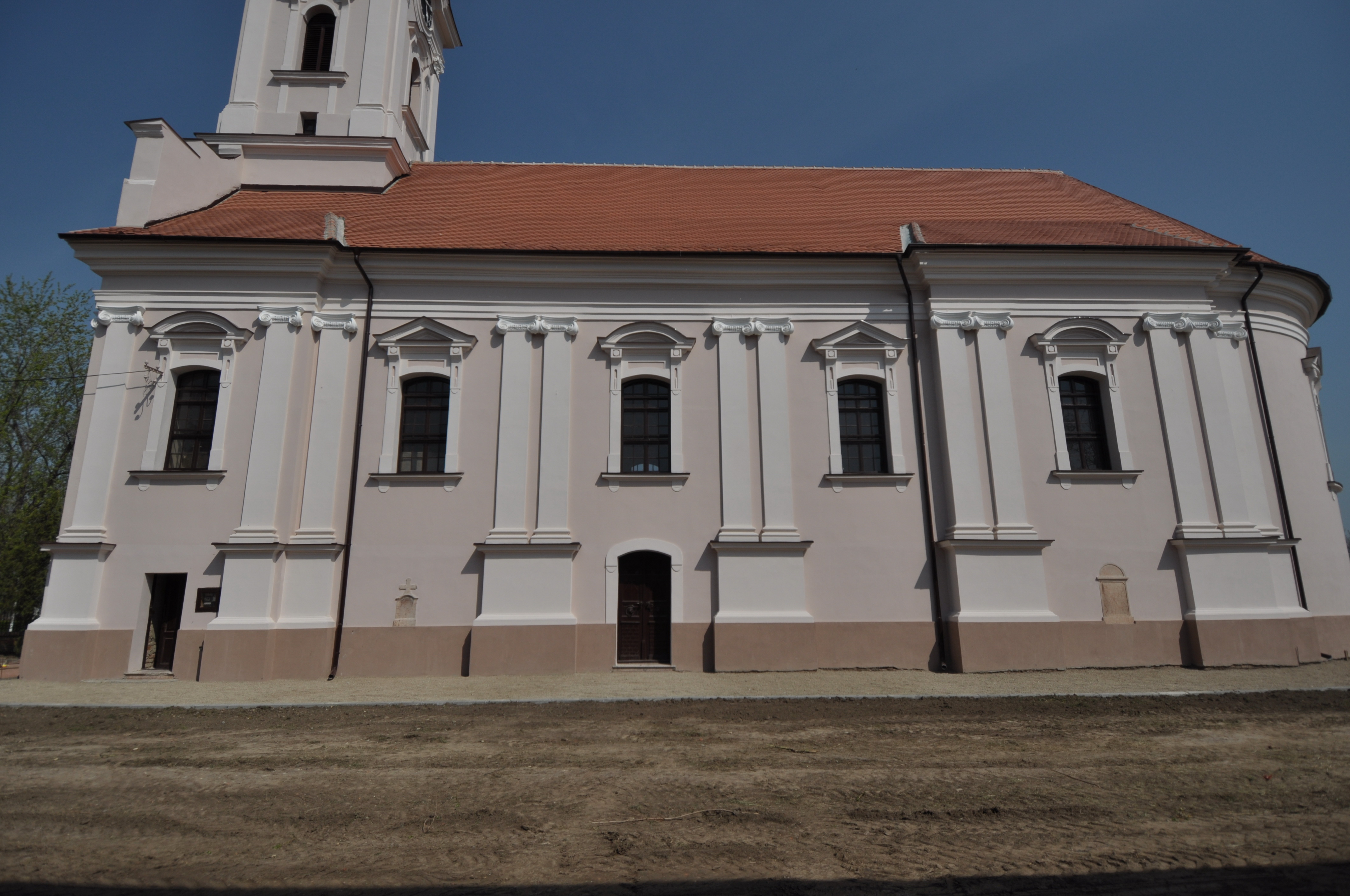 Serbian Orthodox church of Saint Nicholas in Tomaševac - southern facade